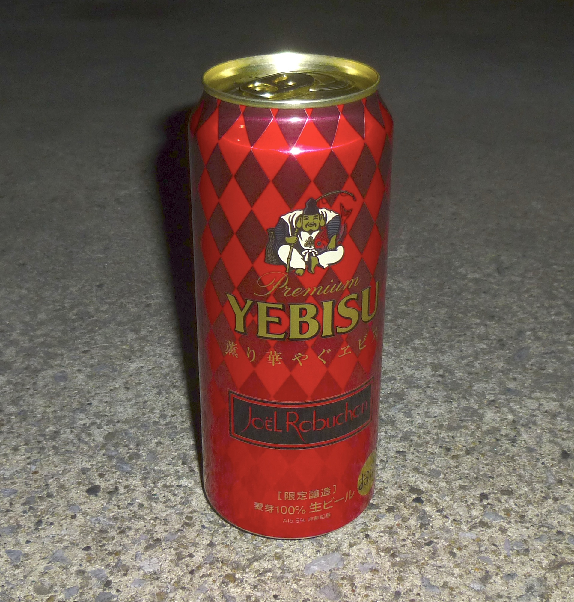 Joel Robuchon Can Beer (Japan)